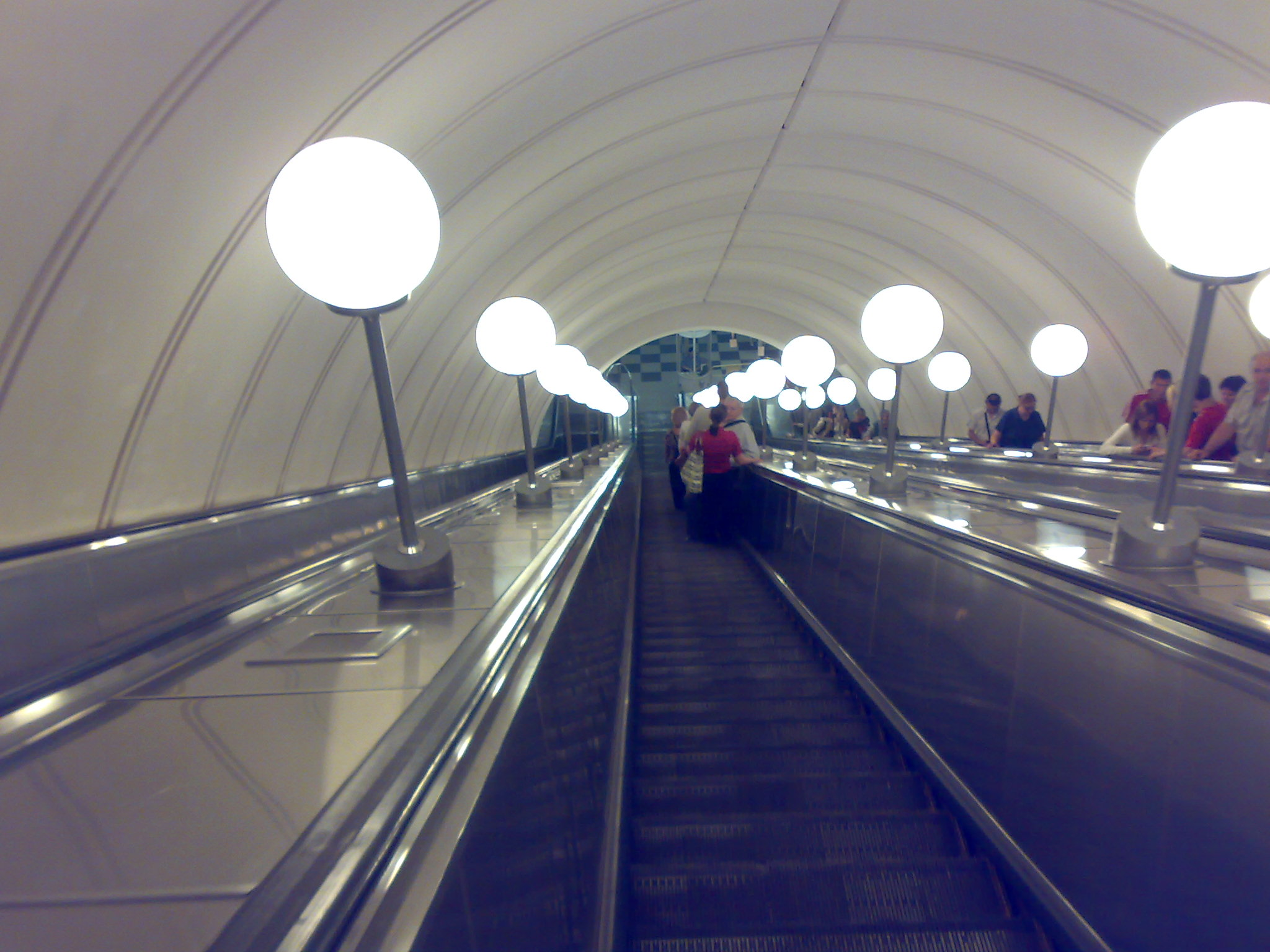 took this image using my mobile on 24 August 2008. Escalator at Park Pobedy Station (Arbatsko-Pokrovskaya Line) of the Moscow Metro.